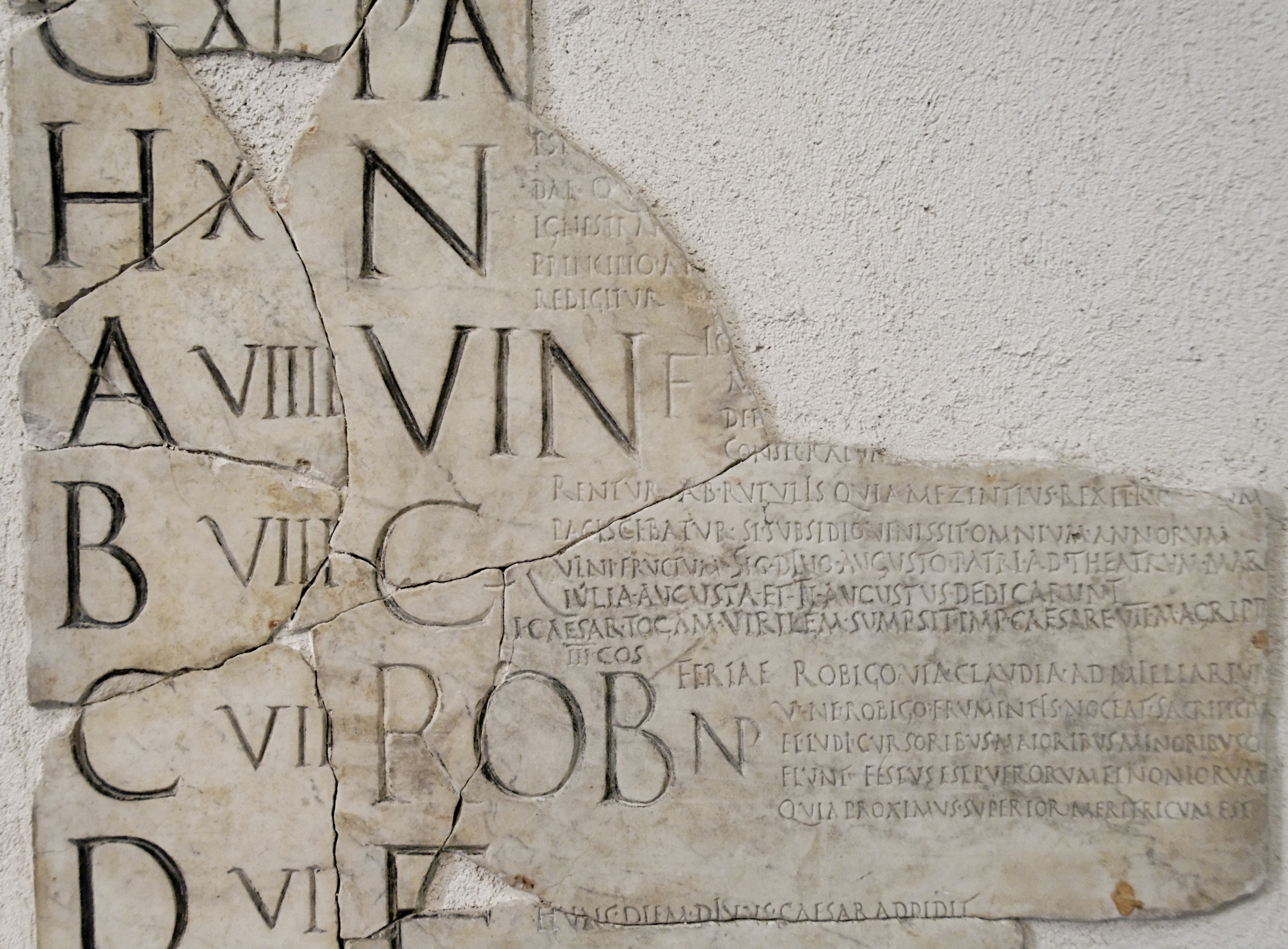 Section of the Fasti Praenestini, calendar of Verrius Flaccus. VIN stands for Vinalia, a wine festival, and ROB for Robigalia, a festival to ward off crop disease.